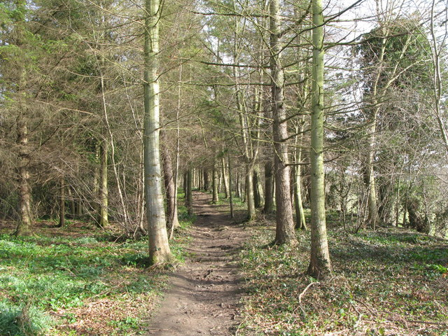 Hadrian's Wall Path in woodland west of Planetrees